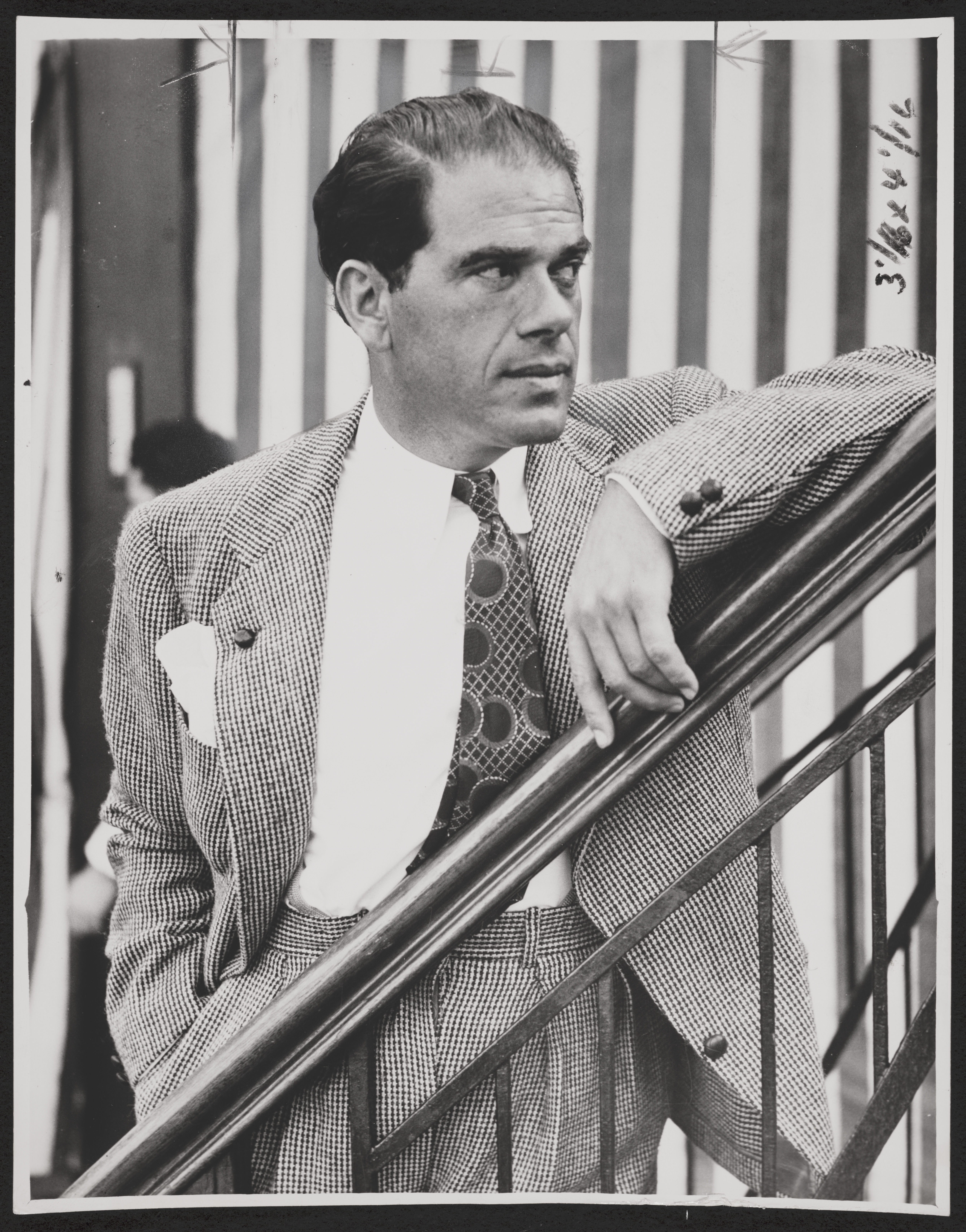 Photograph shows Capra on board the SS Rex from Italy to New York.